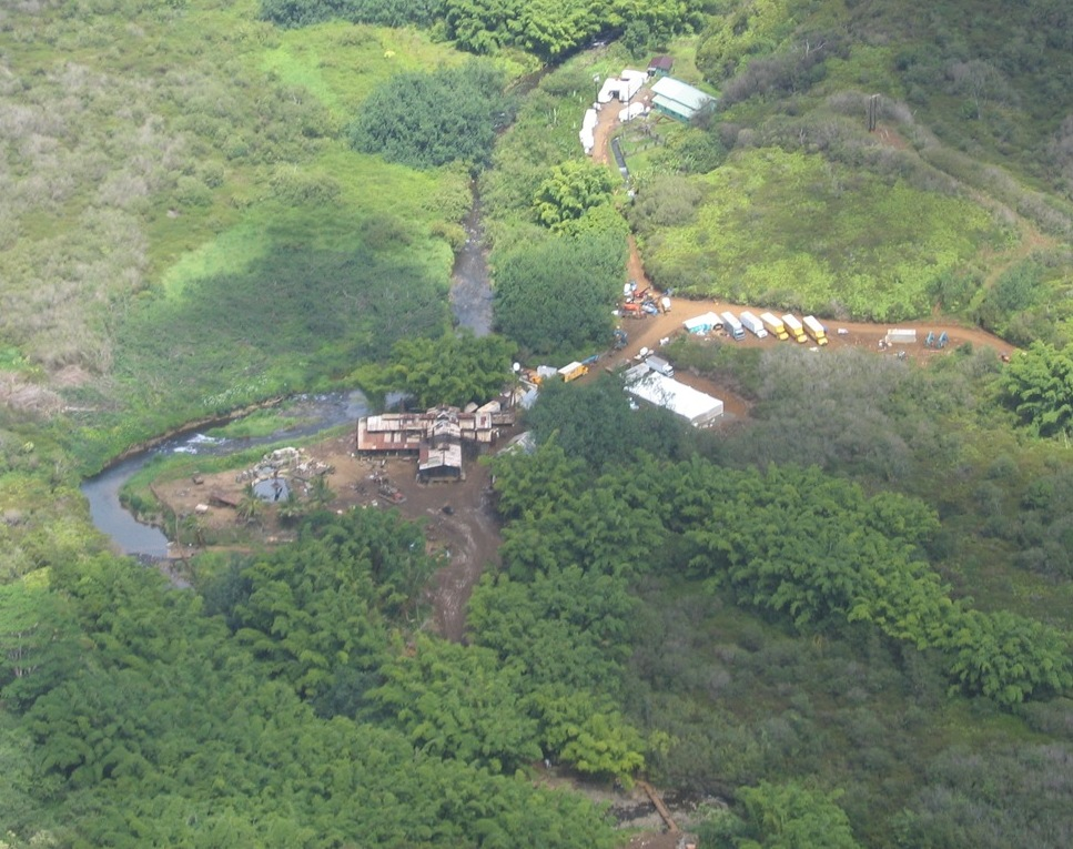 A helicopter view of a film set for the 2008 film Tropic Thunder on the island of Kauai, Hawaii.